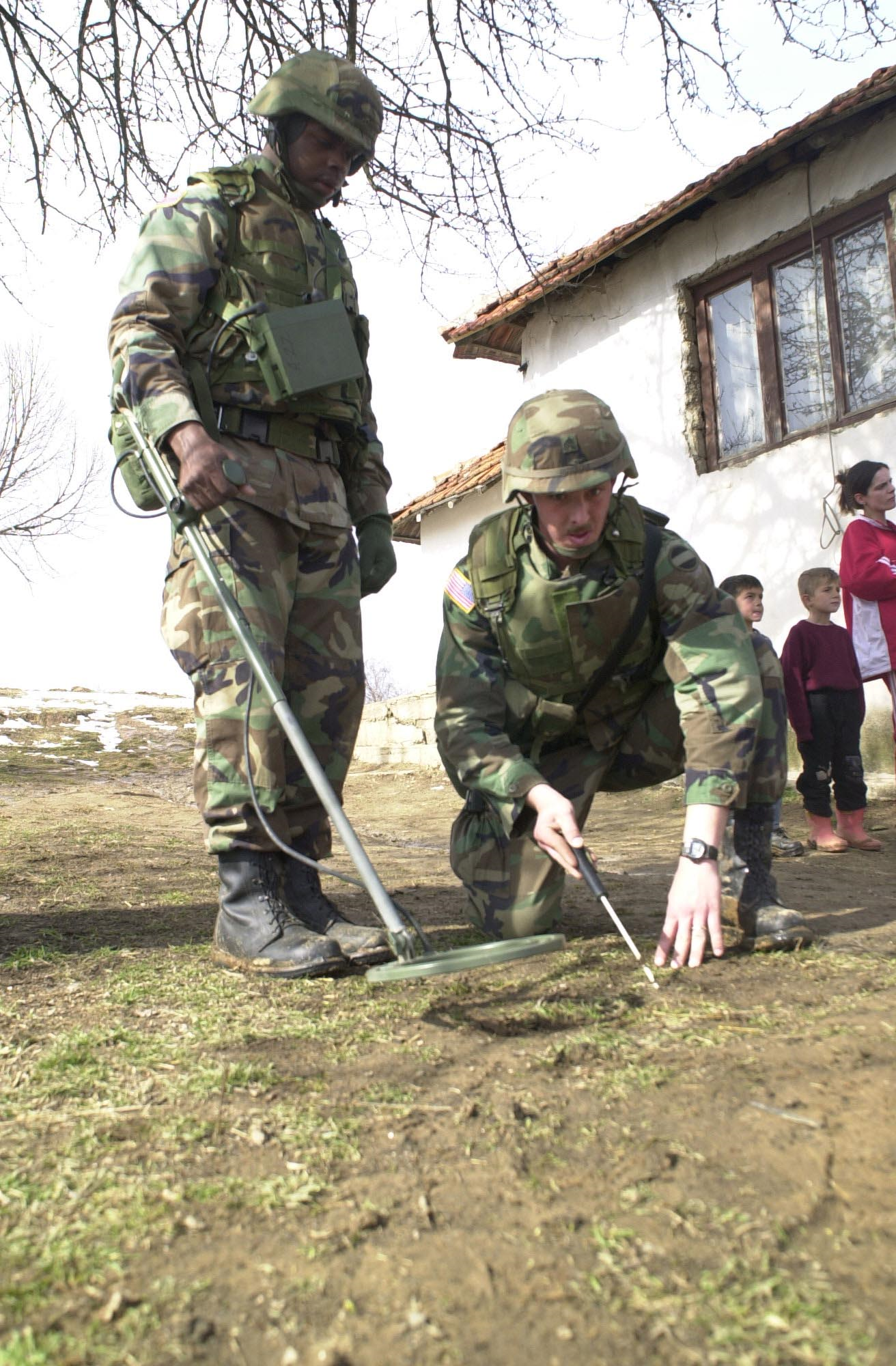 Pfc. Thomas Generett (left) and Sgt. Thomas Rutledge, both combat engineers in Company A, 5th Engineer Battalion (Task Force 27th Engineers) probe in the yard of house in Muci Babe. Generett's mine dectector picked up some readings and Rutledge used his probe to check it out. U.S. Army photo by Spc. Bill Putnam/131st MPAD.